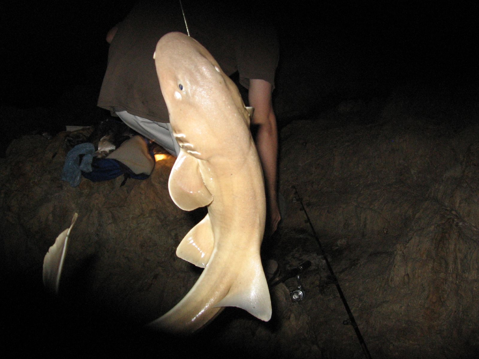 Tawny nurse shark (Nebrius ferrugineus) caught off Townsville, Australia